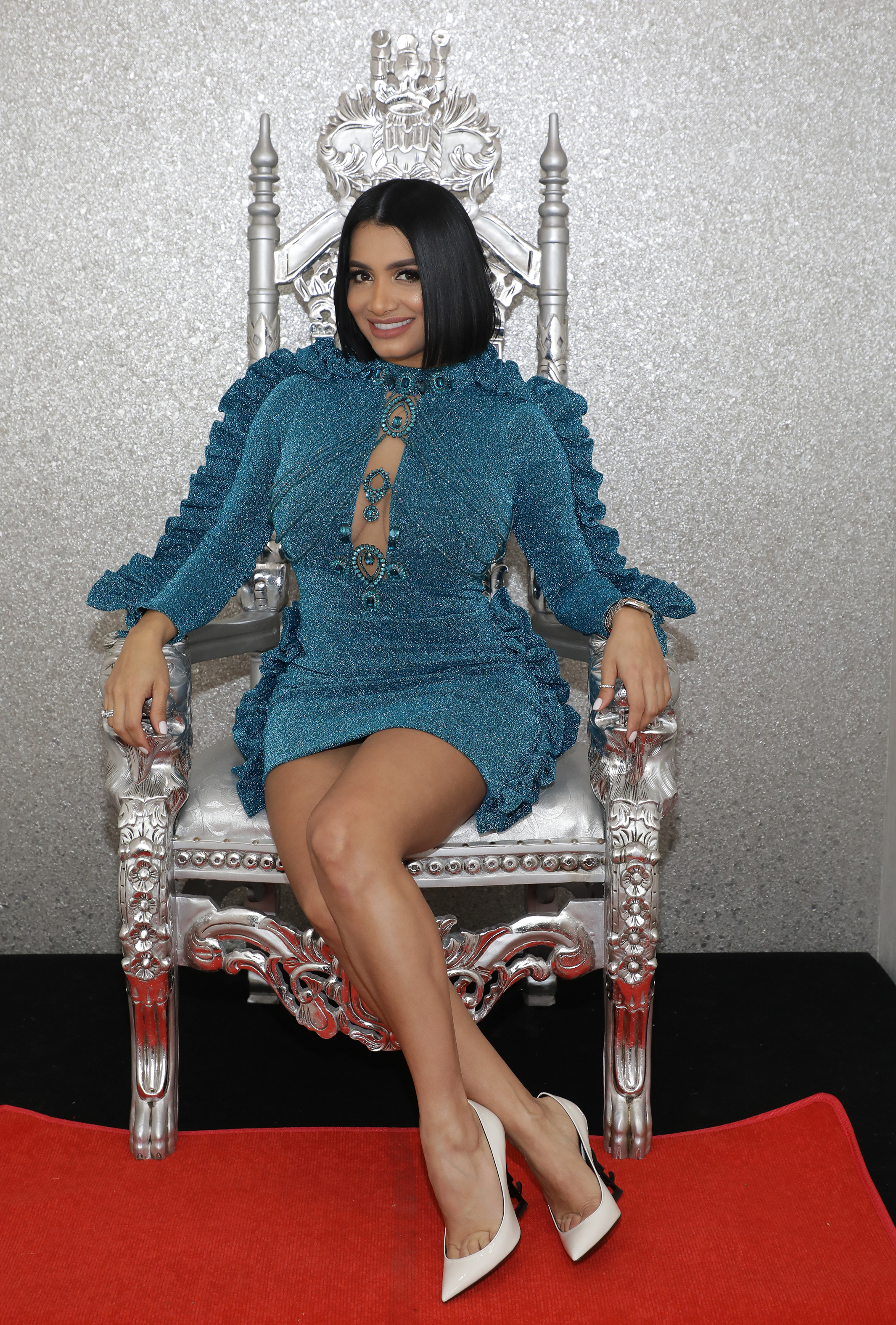 Photo of Karen Paba, cosmetologist